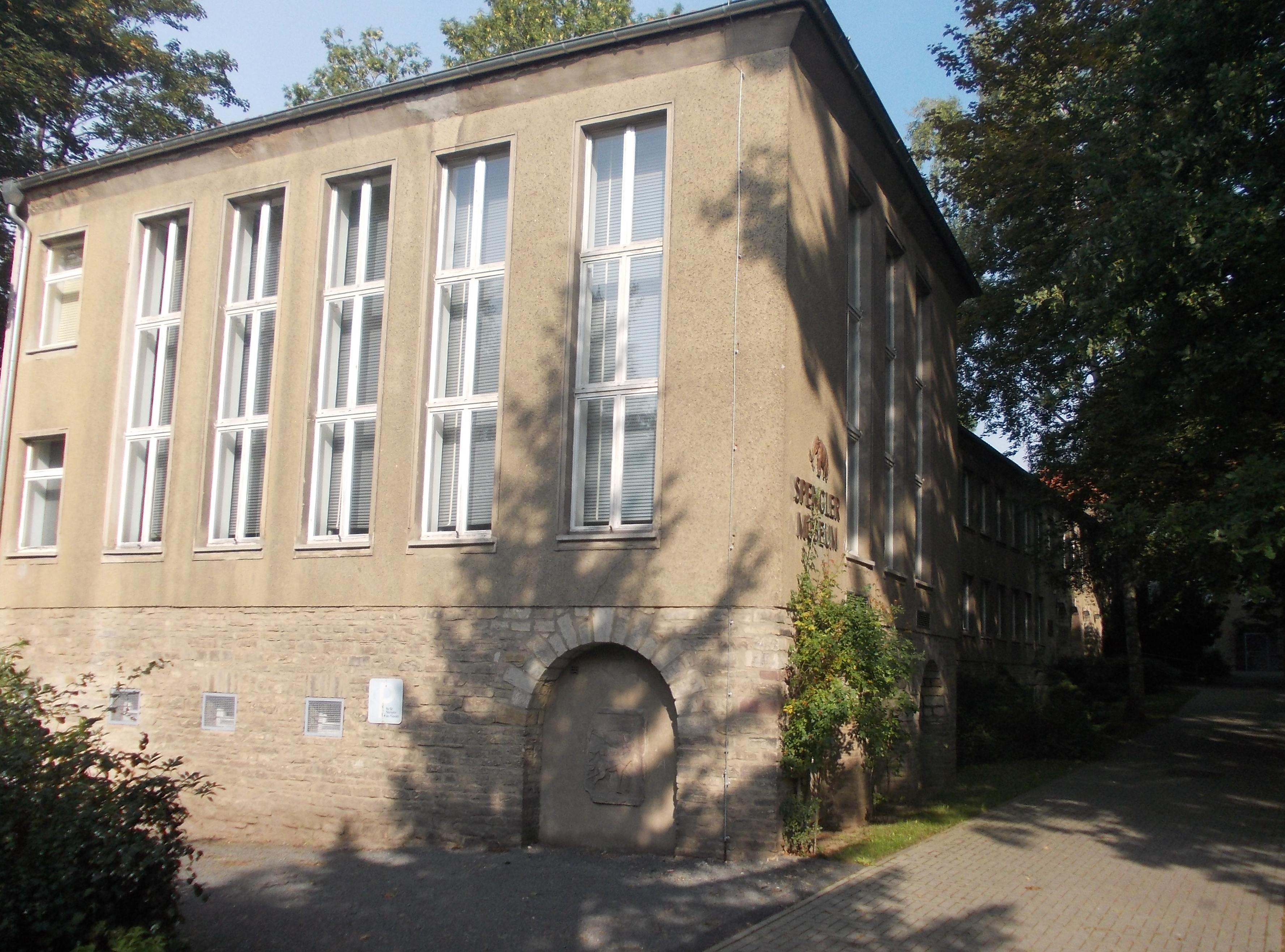 Spengler Museum in Sangerhausen (Mansfeld-Südharz district, Saxony-Anhalt)